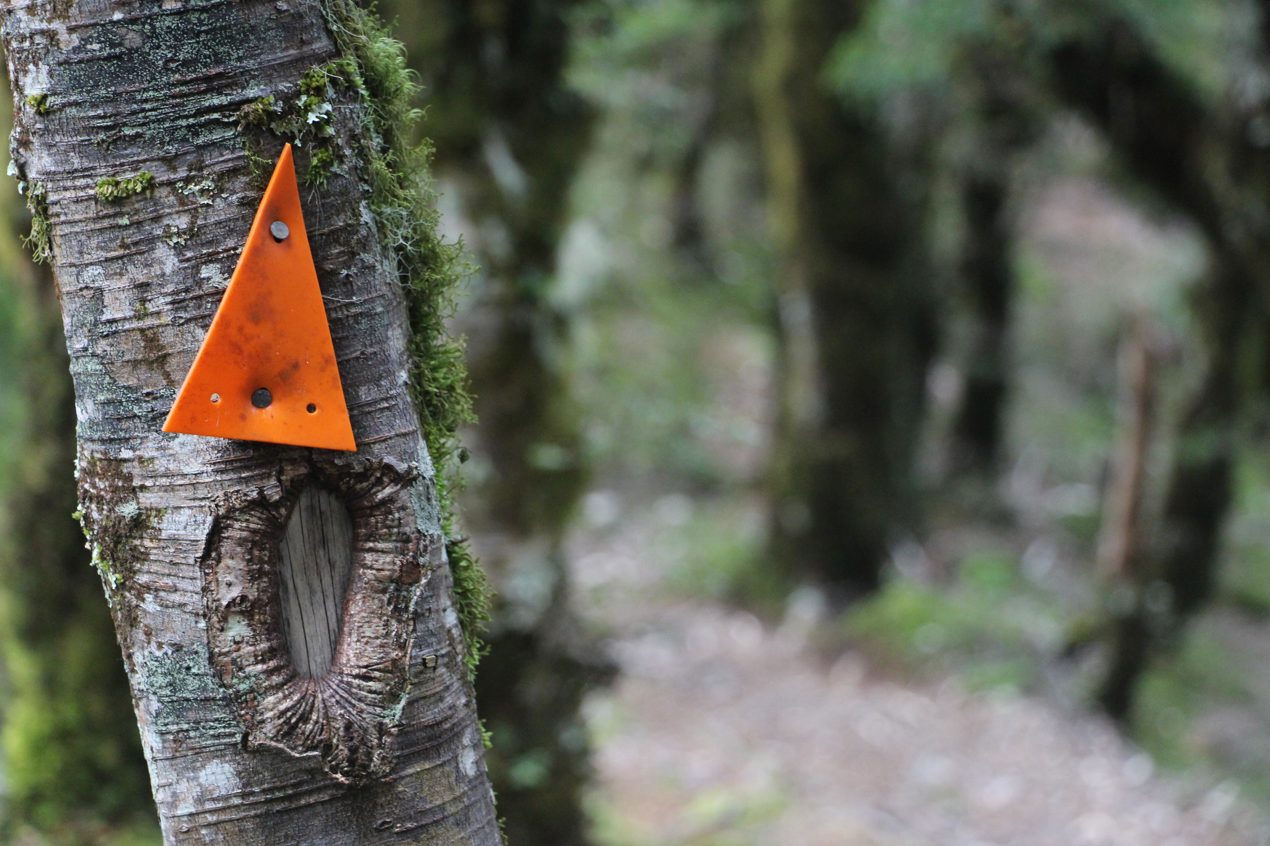 Bush on the way to Mt Jumbo. Tararua Forest Park, New Zealand An orange triangle above an old trail carving.